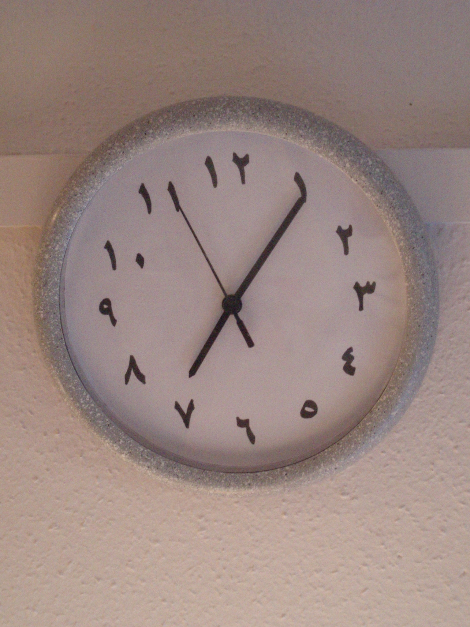 Clock with Arabic numbers, own picture, 2007, made by Looi